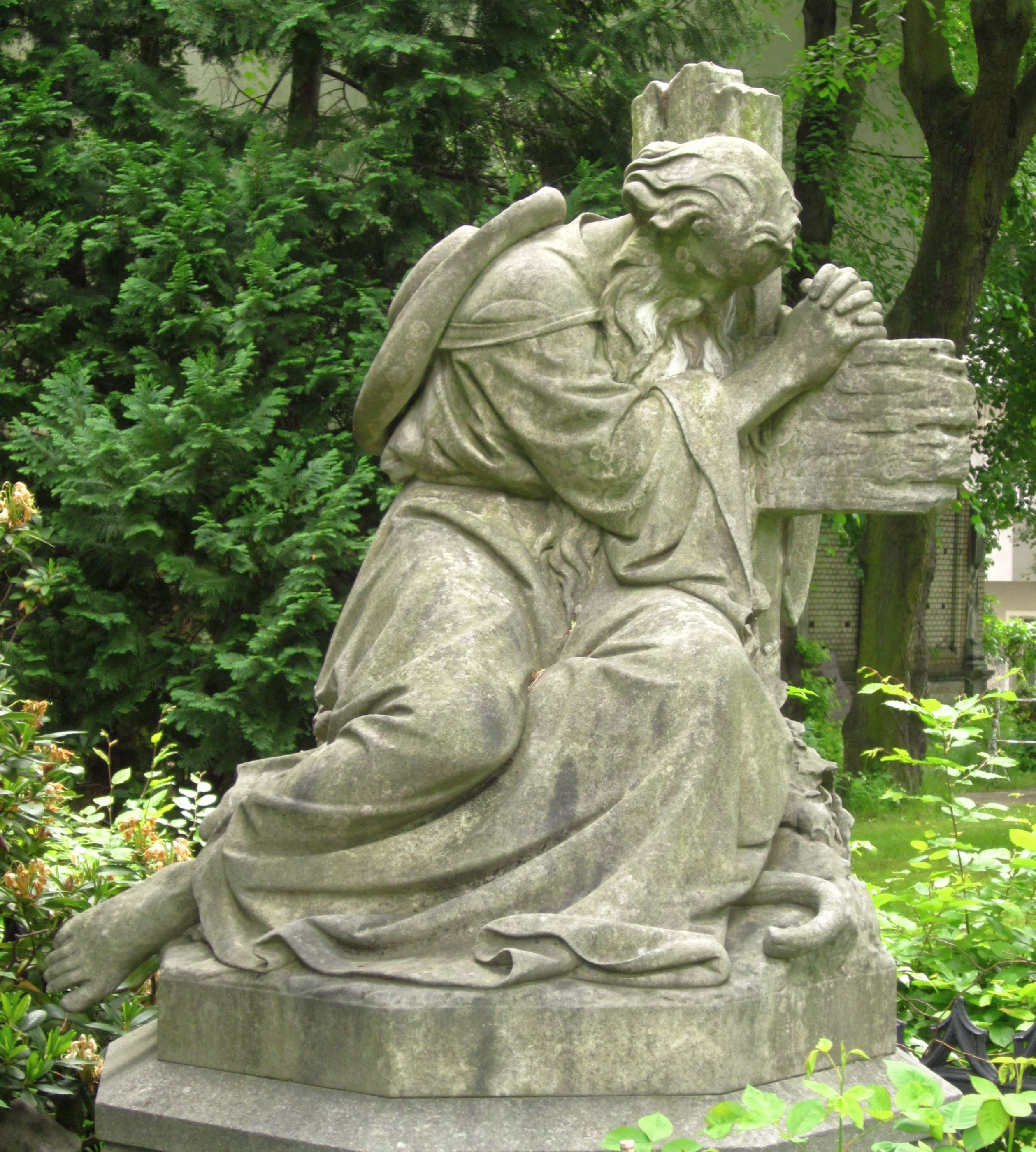 Sculpture "Pilgrim, Sunken down to the Cross for a 'Last Rest'", created by Rudolf Pohle circa 1875, on the grave of the Katsch family on the Alter St. Matthäuskirchhof cemetery at Großgörchenstraße in Berlin-Schöneberg.